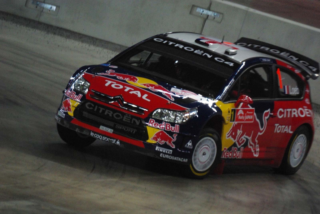 Sébastien Loeb driving his Citroën C4 WRC at a Sapporo Dome super special stage of the 2008 Rally Japan.